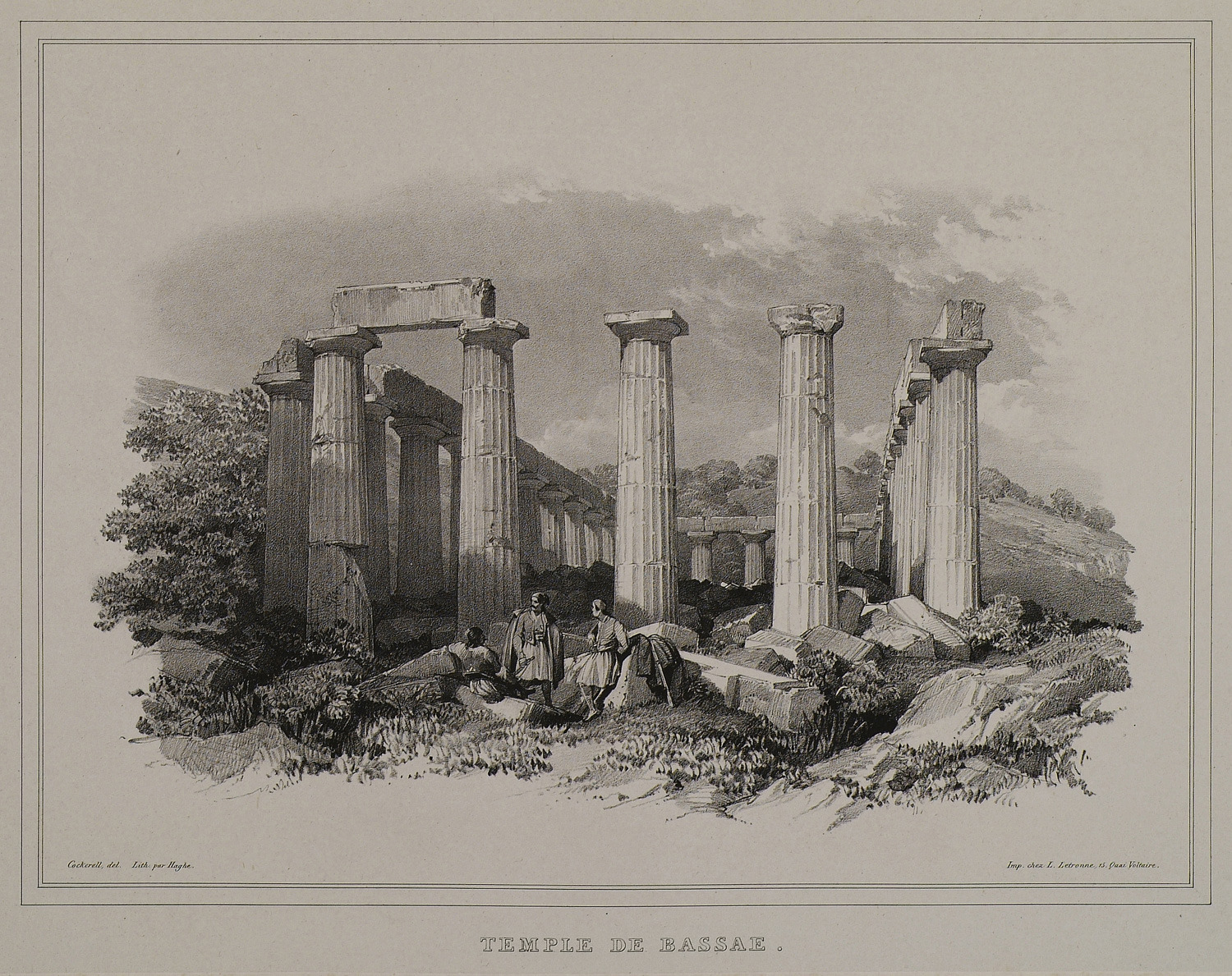 Otto Magnus Von Stackelberg. La Grèce. Vues pittoresques et topographiques, Paris, Chez I. F. D'Ostervald, 1834.